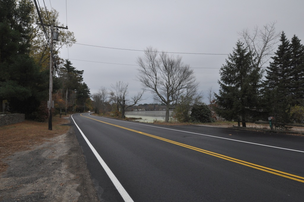 Bay Road, Norton, Massachusetts, near Winnicunnet Pond.